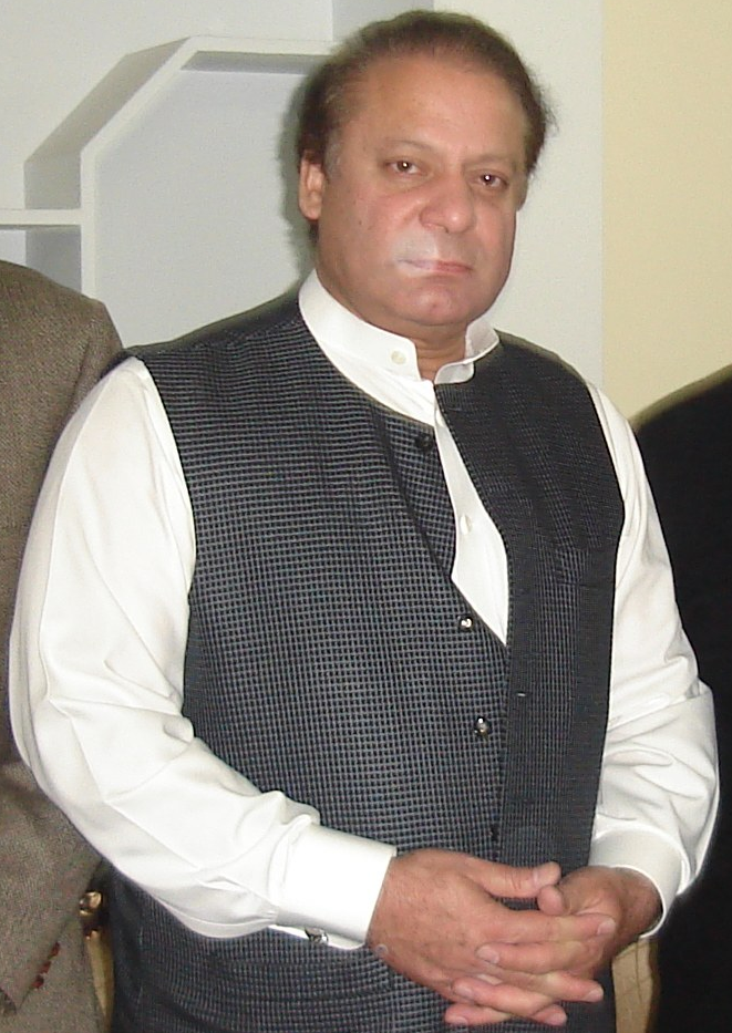 Nawaz Sharif meets envoy